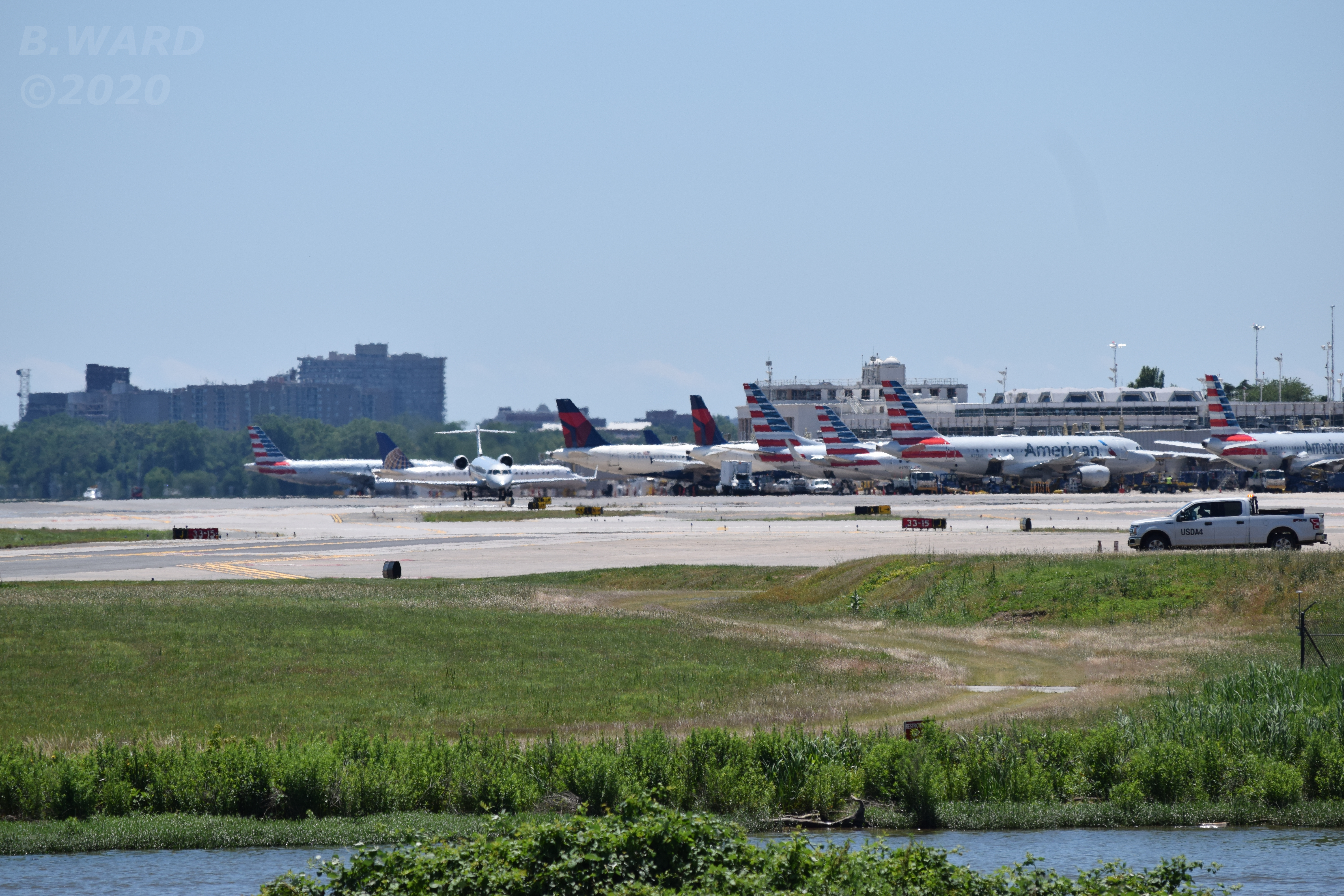 View of DCA terminal B and C